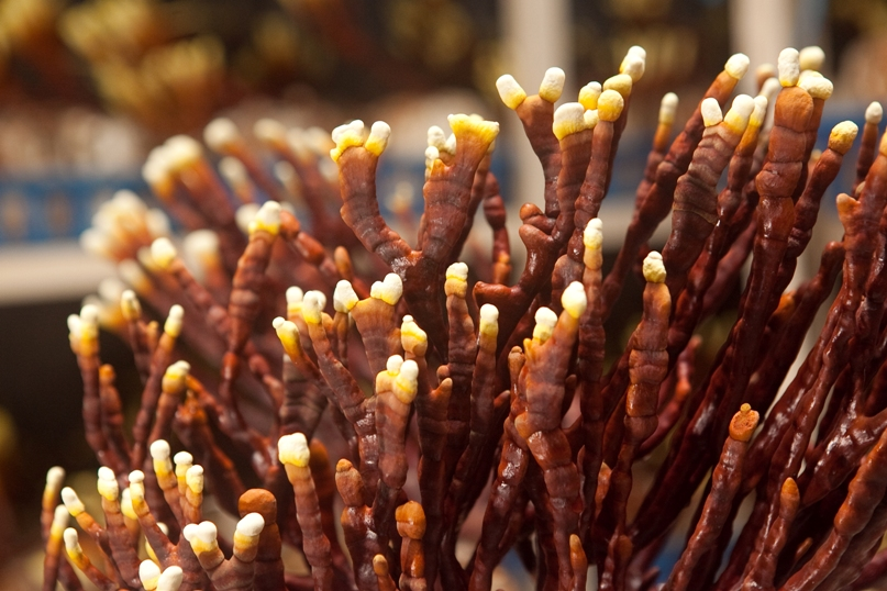 Depending on the environmental or cultivation condition the reishi can lose its umbrella shape and take the shape of deer antler